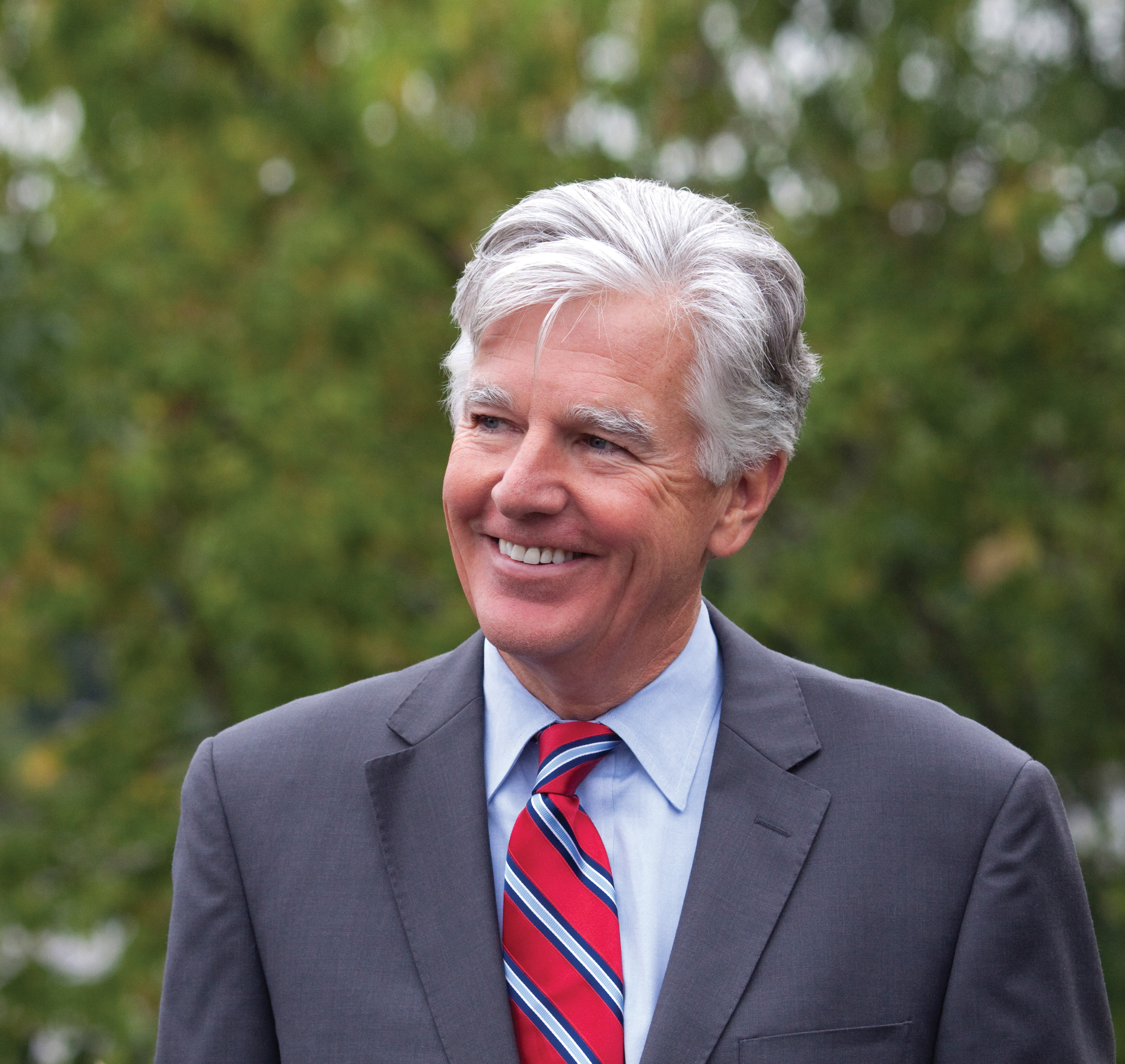 Martin T. Meehan, 27th president of the University of Massachusetts System.